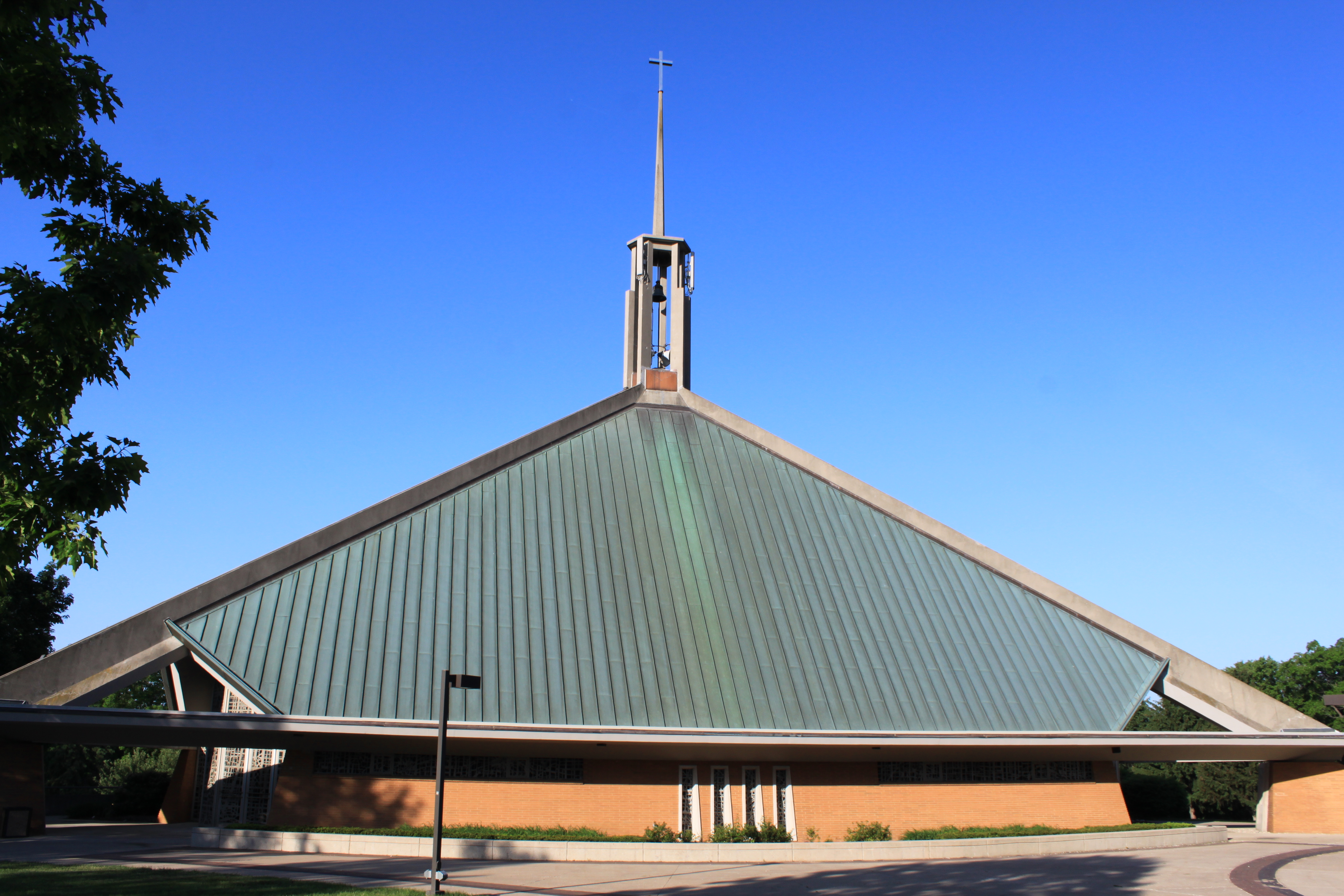 Holy Trinity Chapel, Concordia University, 4090 Geddes Road, Ann Arbor, Michigan.